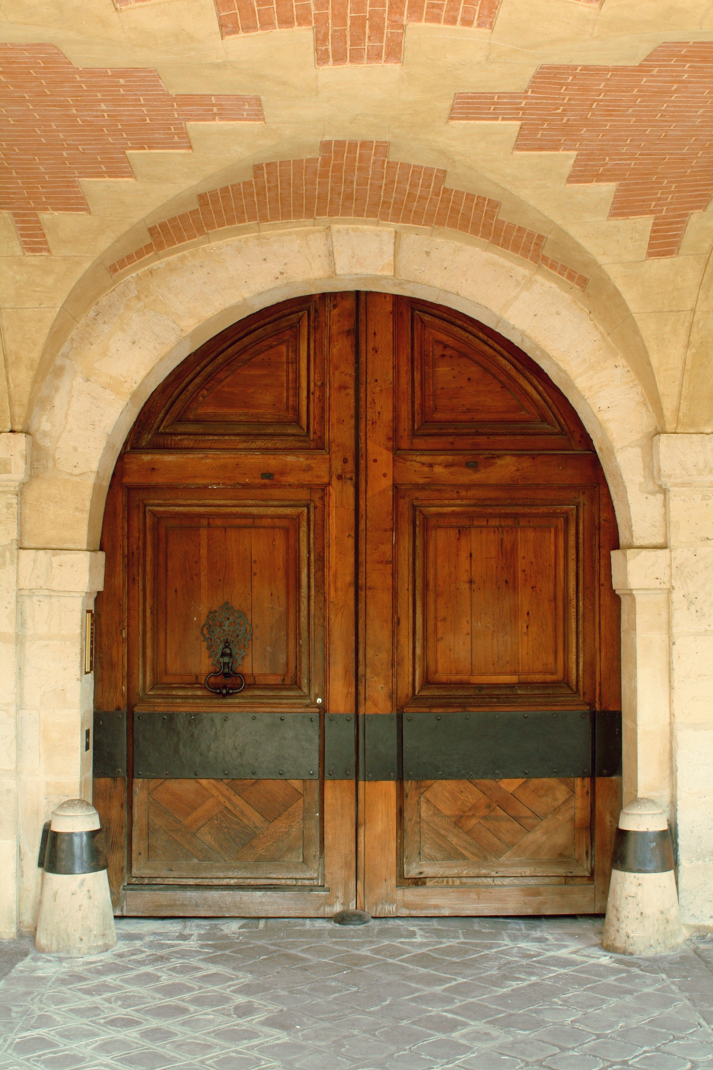 Door of 20 Place des Vosges, Paris.